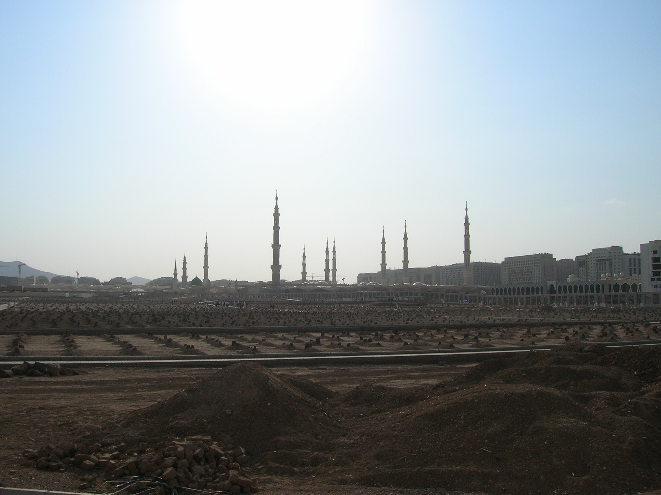 Background: Prophet's Mosque. Foreground: Baqi' Cemetery.